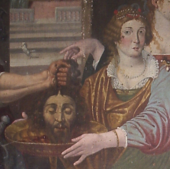 Detail of canvas placed on the main altar of the Church of St. John the Beheaded (Nepi). Unknown author of the seventeenth century.